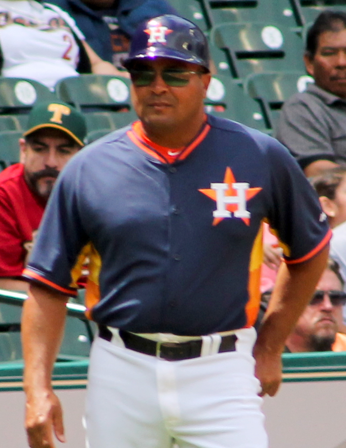 Pat Listach, a coach for the Houston Astros, in March 2014.